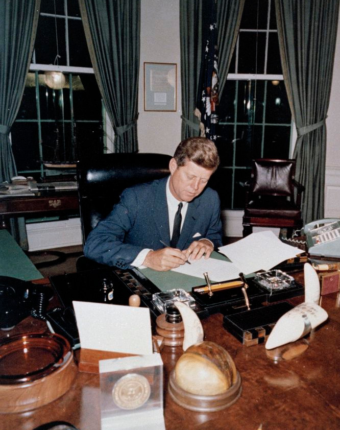 President John F. Kennedy signs the Interdiction of the Delivery of Offensive Weapons to Cuba. Oval Office, White House, Washington, D.C.